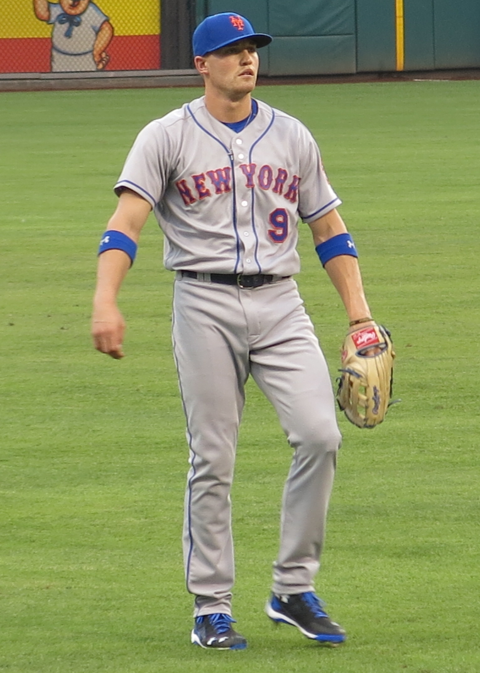 Brandon Nimmo of the New York Mets, July 16, 2016.